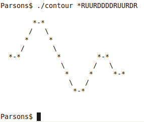 'Ode to Joy' melodic contour (Parsons code) (+schema)